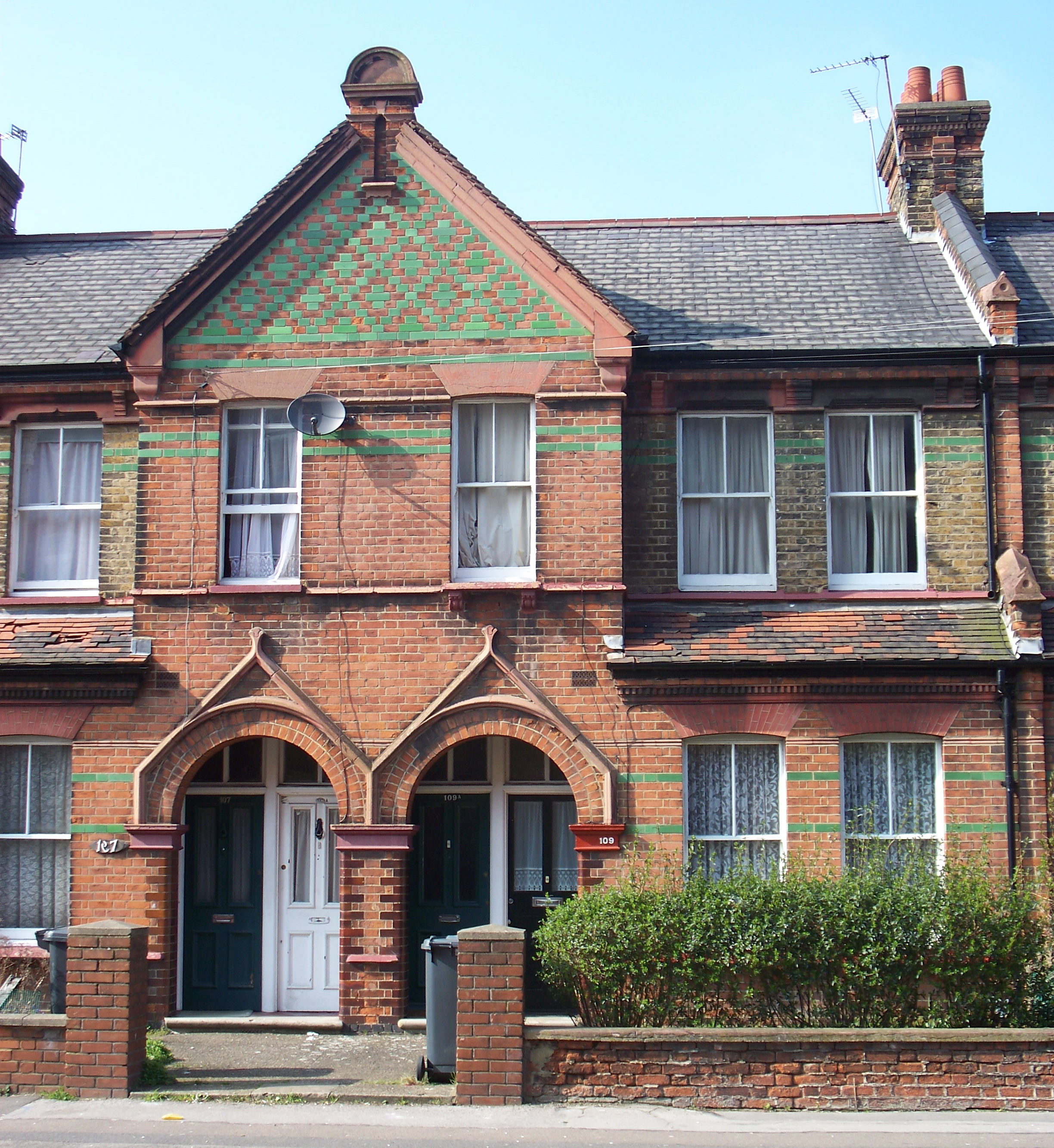 Cottage flats in Noel Park, London N22, designed by Rowland Plumbe. Photograph taken in a public location in the UK of a building on permanent public display, and exempt from copyright under Section 62 of the Copyright Designs & Patents Act 1988 ("it is not an infringement of copyright to film, photograph, broadcast or make a graphic image of a building, sculpture, models for buildings or work of artistic craftsmanship if that work is permanently situated in a public place or in premises open to the public")